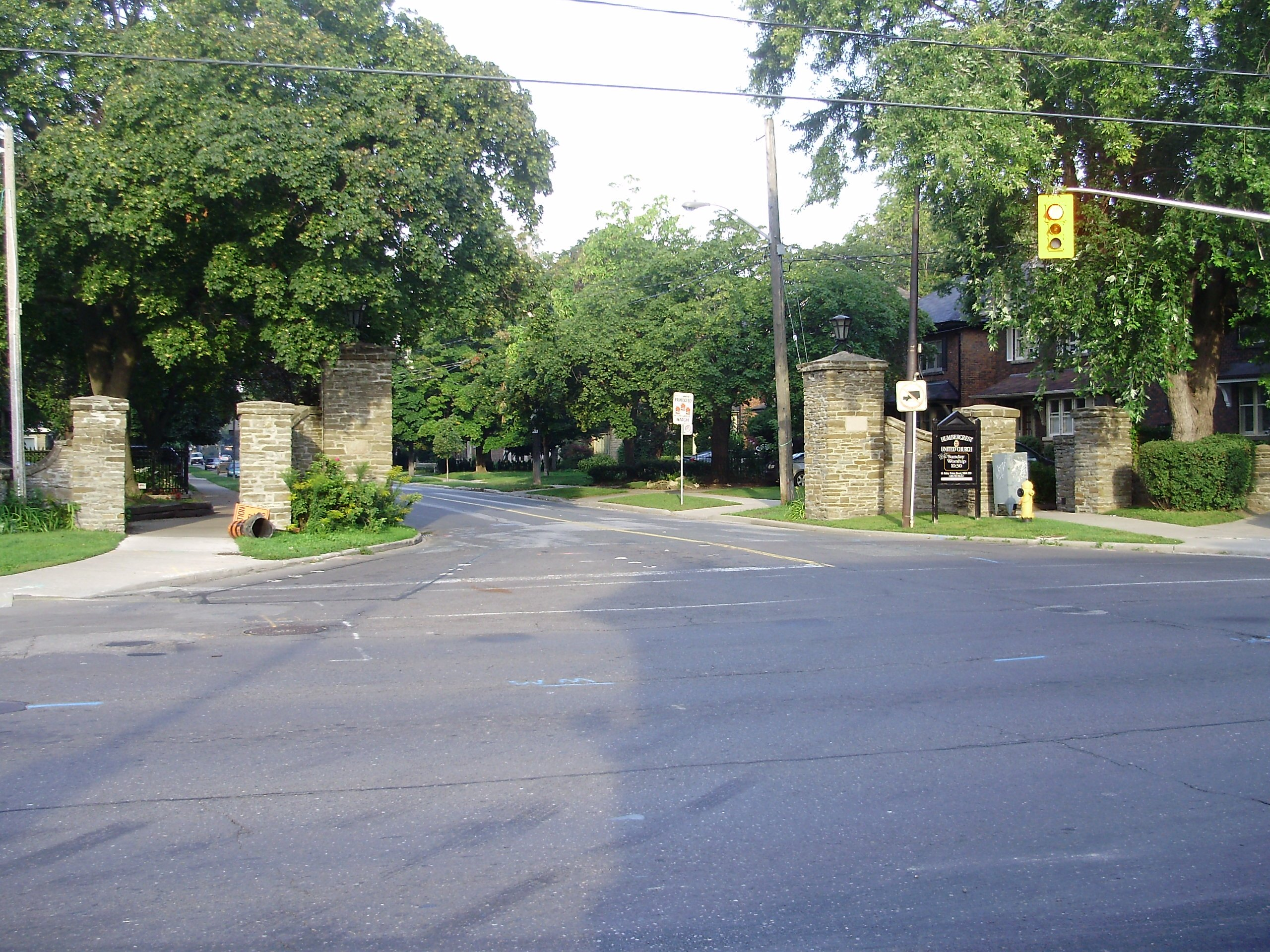 These historic stone gates, located at the intersection of Jane Street and Baby Point Road, mark the entrance to the Baby Point enclave in the neighbourhood of Lambton Baby Point in Toronto, Ontario, Canada.